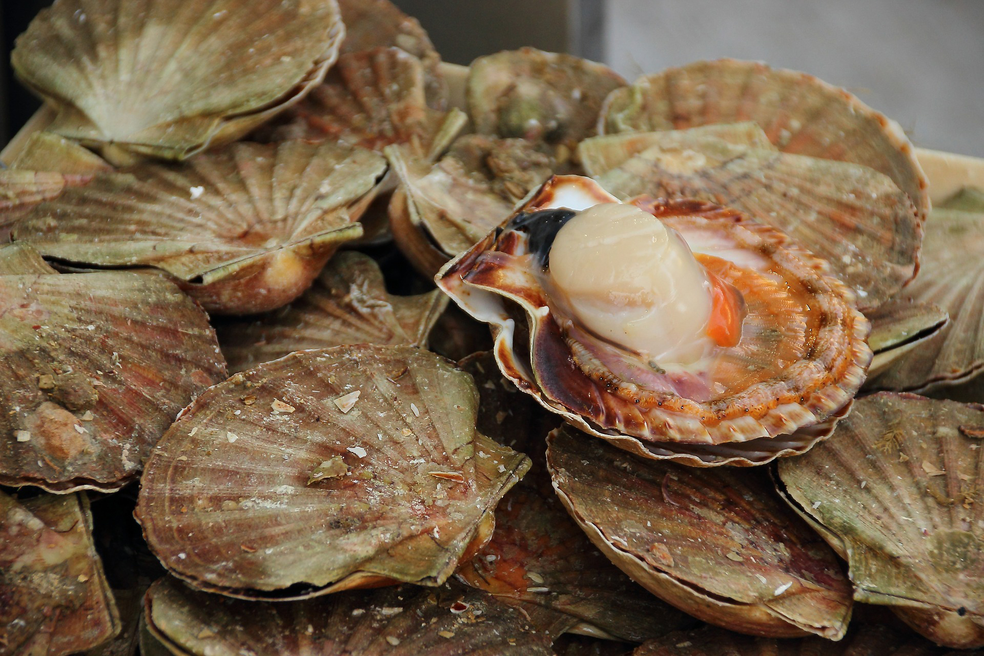 Piràmide d'aliments de l'Empordà